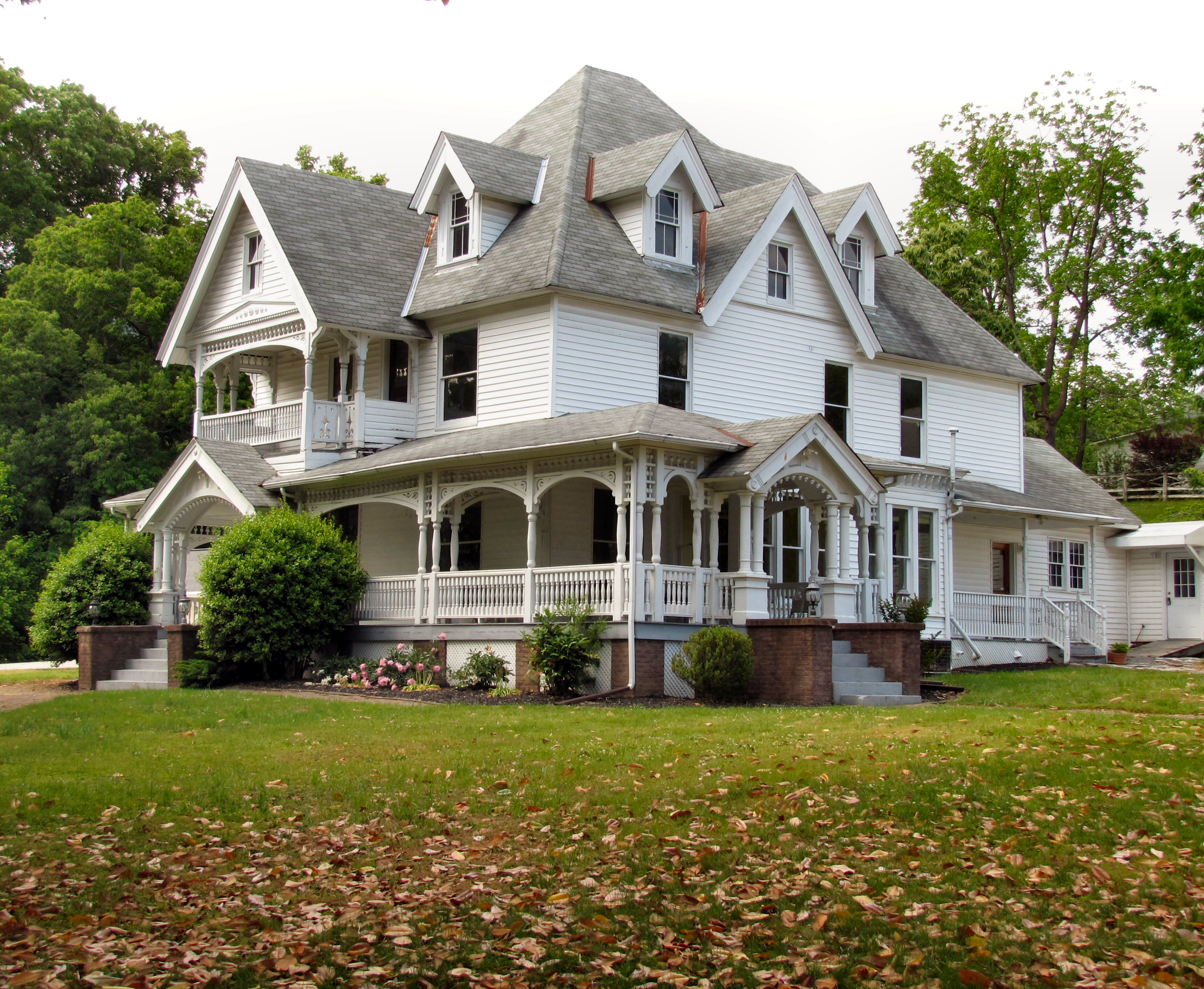 The LaFollette House, also known as Glen Oaks, in LaFollette, Tennessee, United States. This house was built c. 1895 by entrepreneur and founder of the City of LaFollette, Harvey LaFollette, and designed by George Franklin Barber. It is now listed on the National Register of Historic Places.